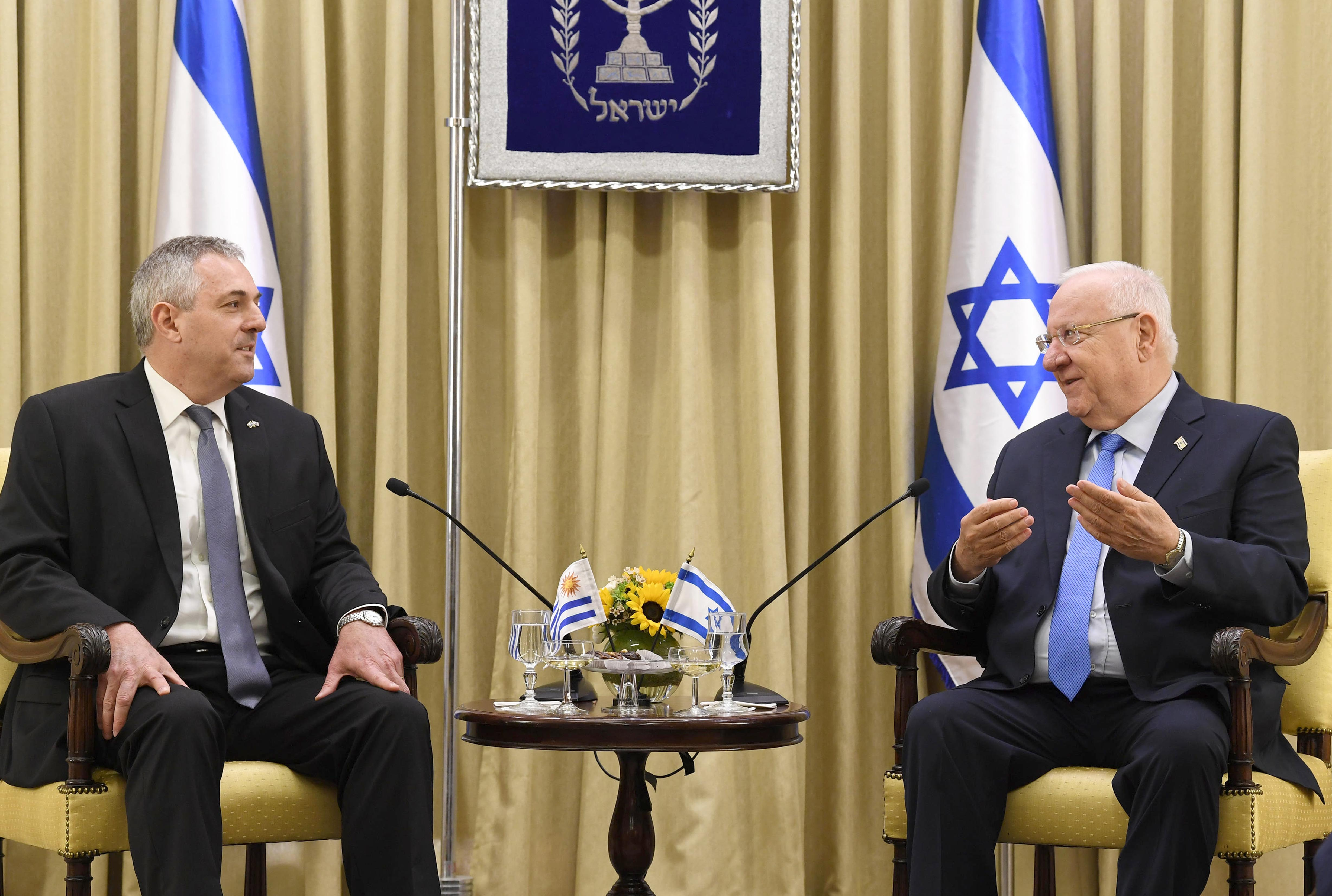 President Reuven Rivlin receives the credentials of the new ambassadors from Sweden, Portugal, Uruguay and the Vatican - upon their entry as ambassadors of their countries in Israel. Wednesday, November 29, 2017. Photo Credit: Mark Neyman / GPO.